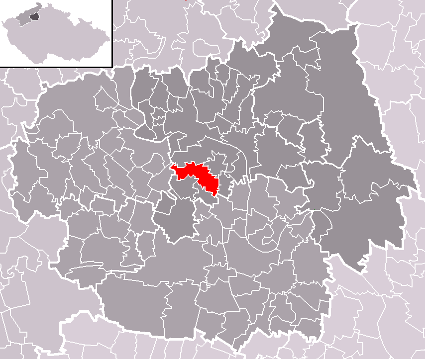 Location of Bohušovice nad Ohří town within Litoměřice District and administrative area of Litoměřice as a Municipality with Extended Competence.